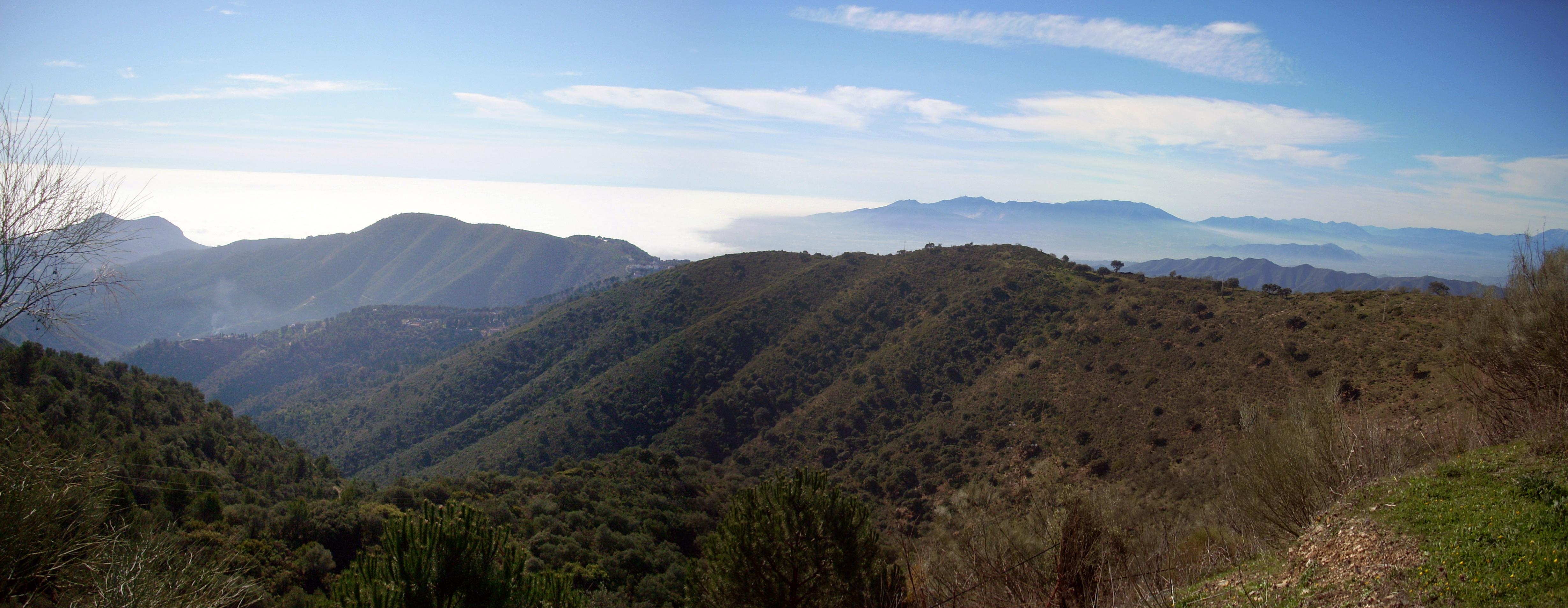 Malaga Mountains